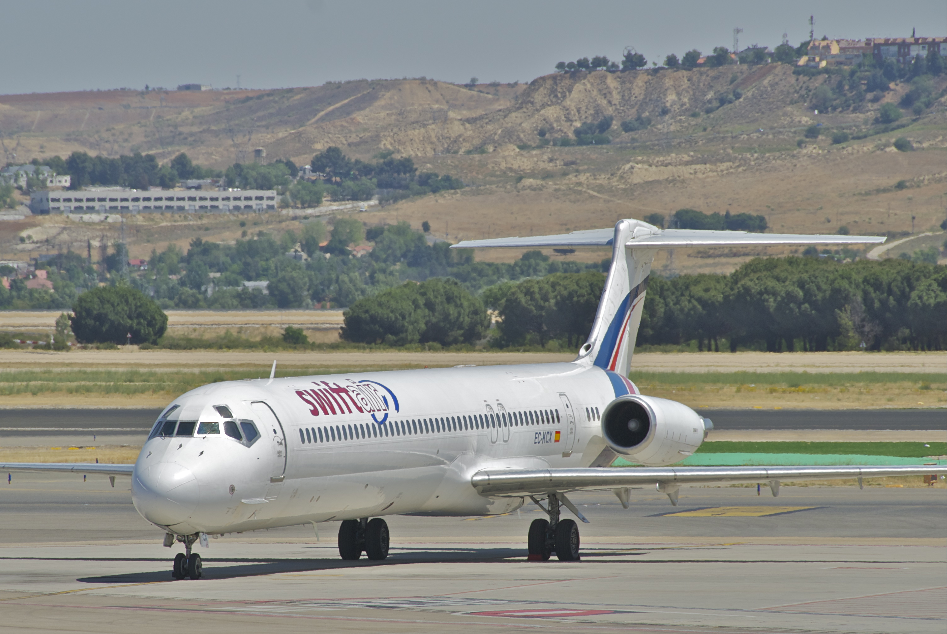 Swift Air MD-83; EC-KCX@MAD;30.06.2012/658bs